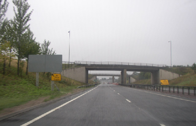 A11/ A1307 Junction near to Babraham, Cambridgeshire. This is on the A11 looking south. The two bridges are the A1304 Cambridge to Haverhill road going over the top. Cambridge is to the right.